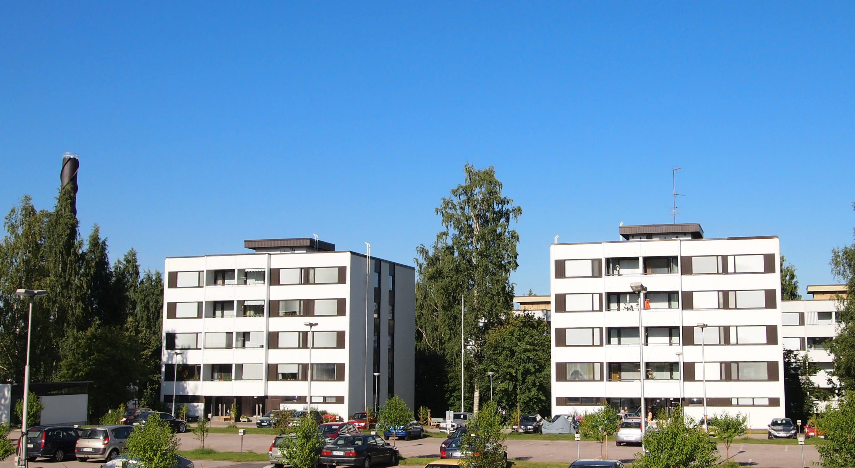 Street Emännäntie in Jyväskylä. This photograph was taken with an Olympus E-PL1